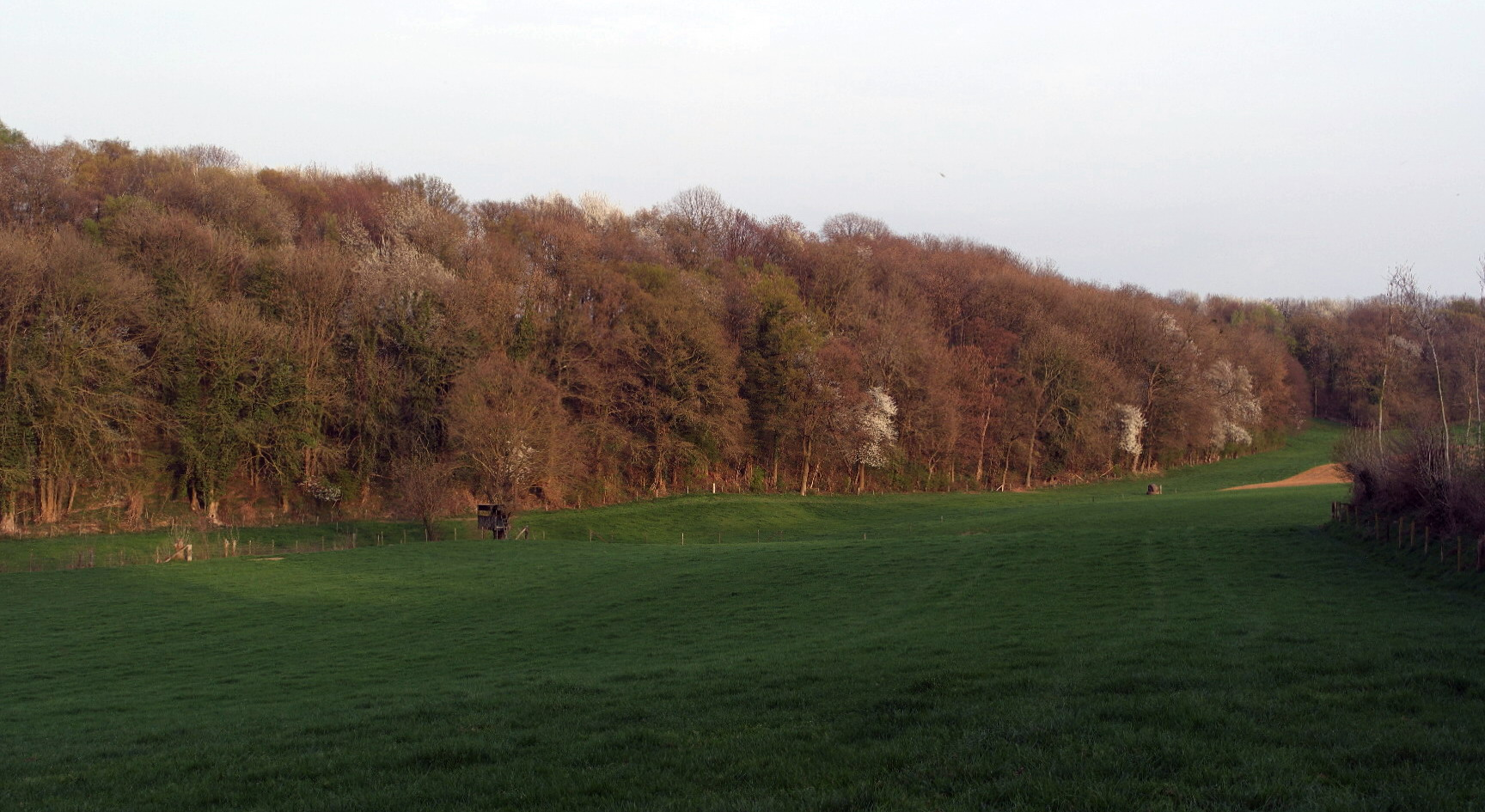 South Limburg, the Netherlands. Evening view of Gerendal between Oud-Valkenburg and Scheulder.